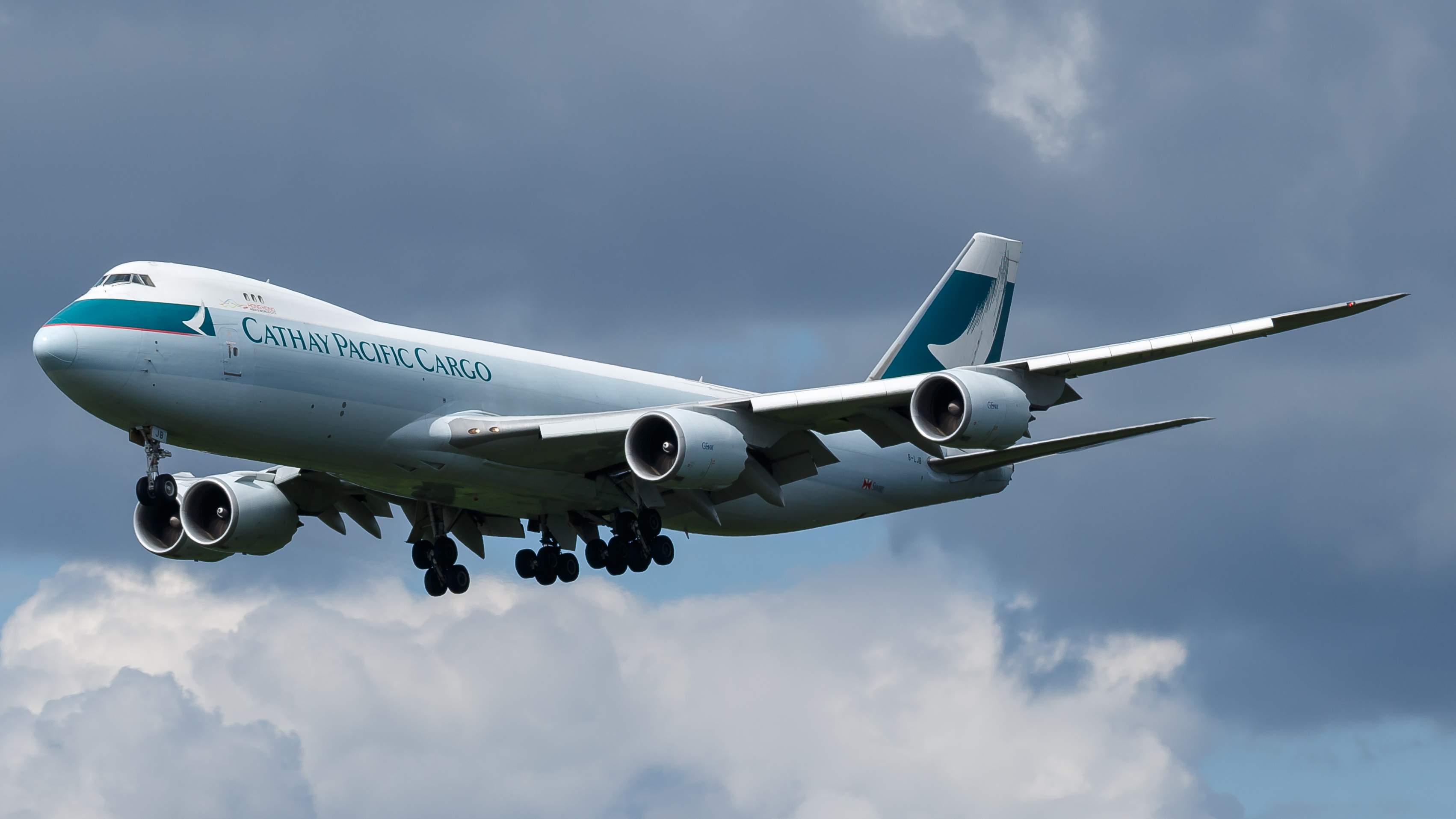 Cathay Pacific Cargo Boeing 747-8F at Frankfurt Airport